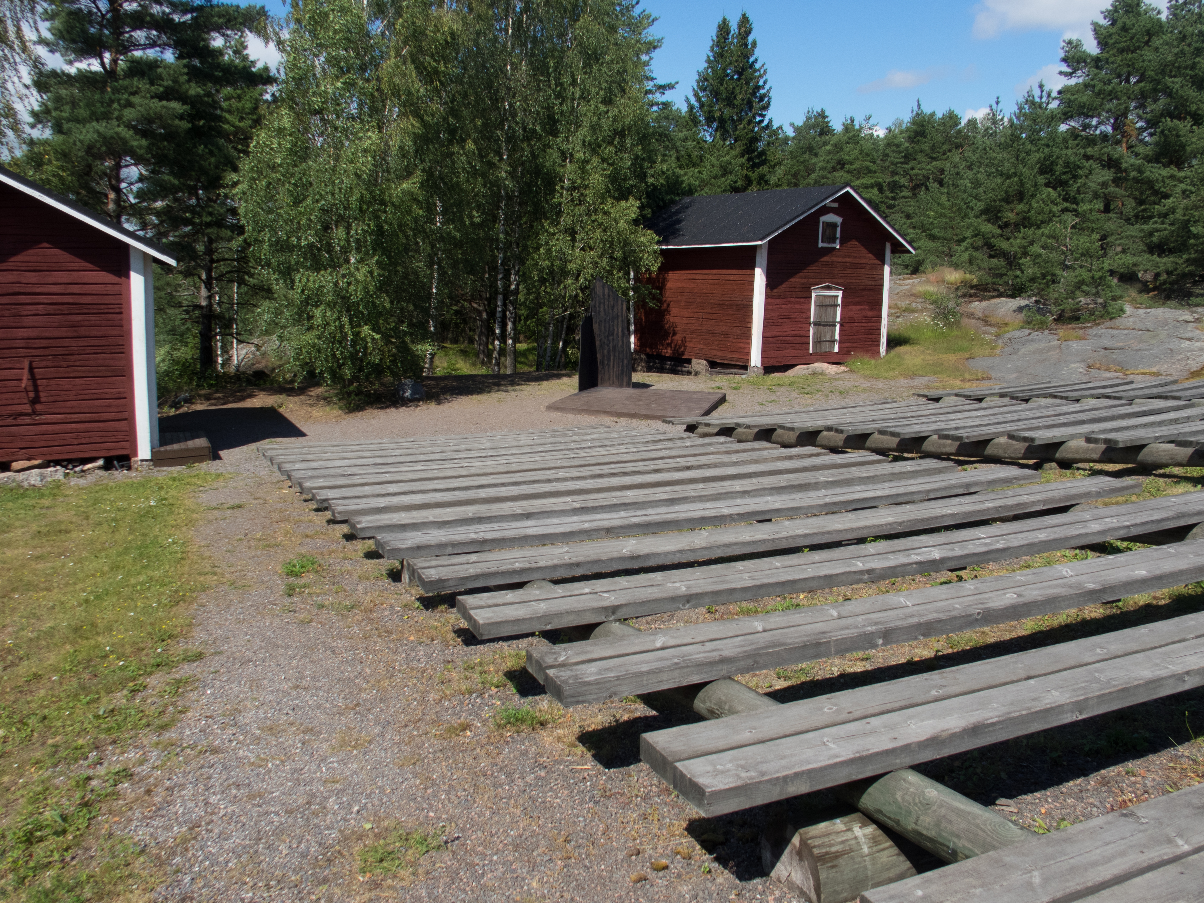 Raisio Summer Theatre at Krookila, typical Finnish outdoor theatre used in the summer, rain or shine.